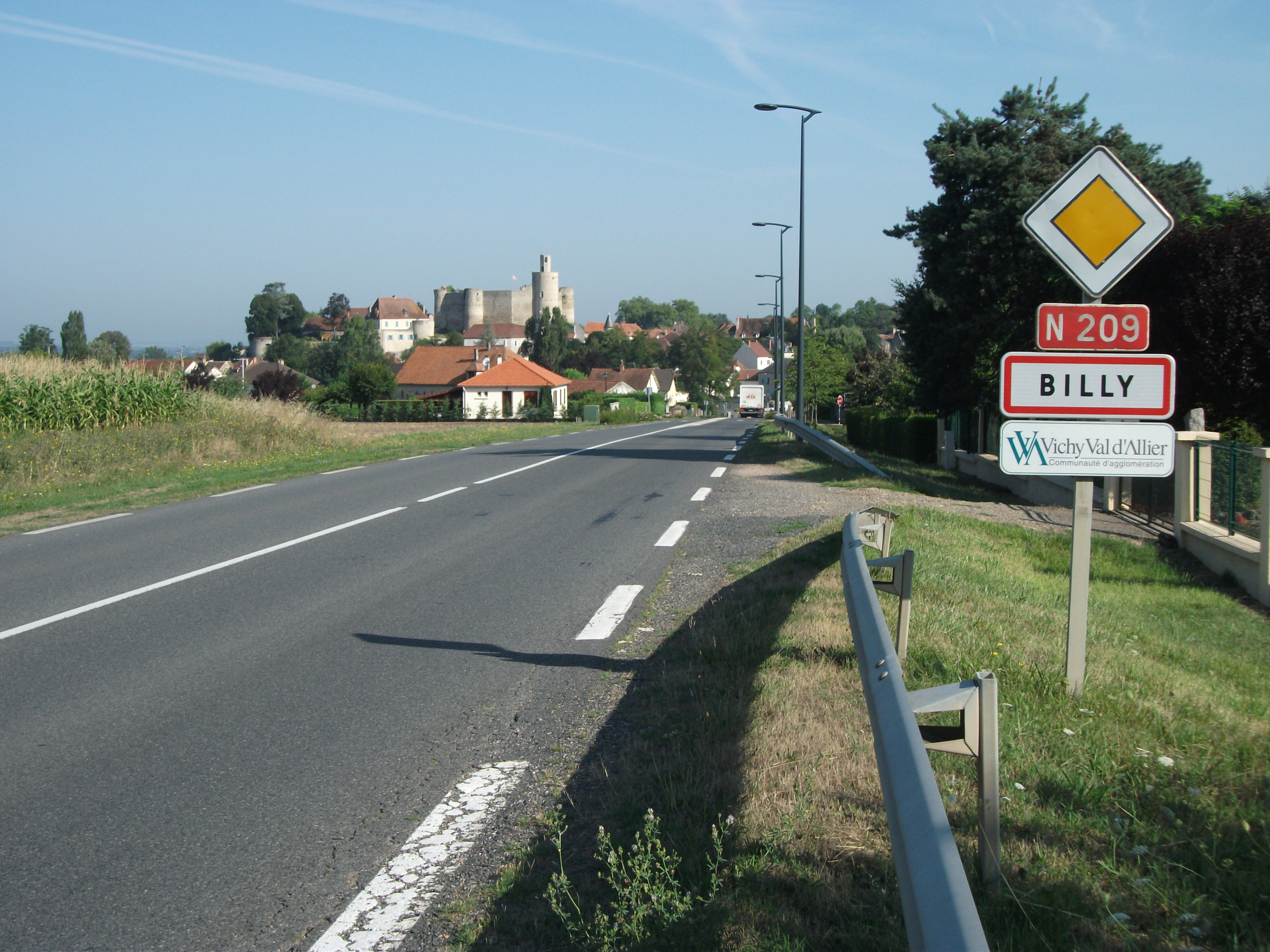 Entrance of Billy by route nationale 209 towards Moulins. [8563]